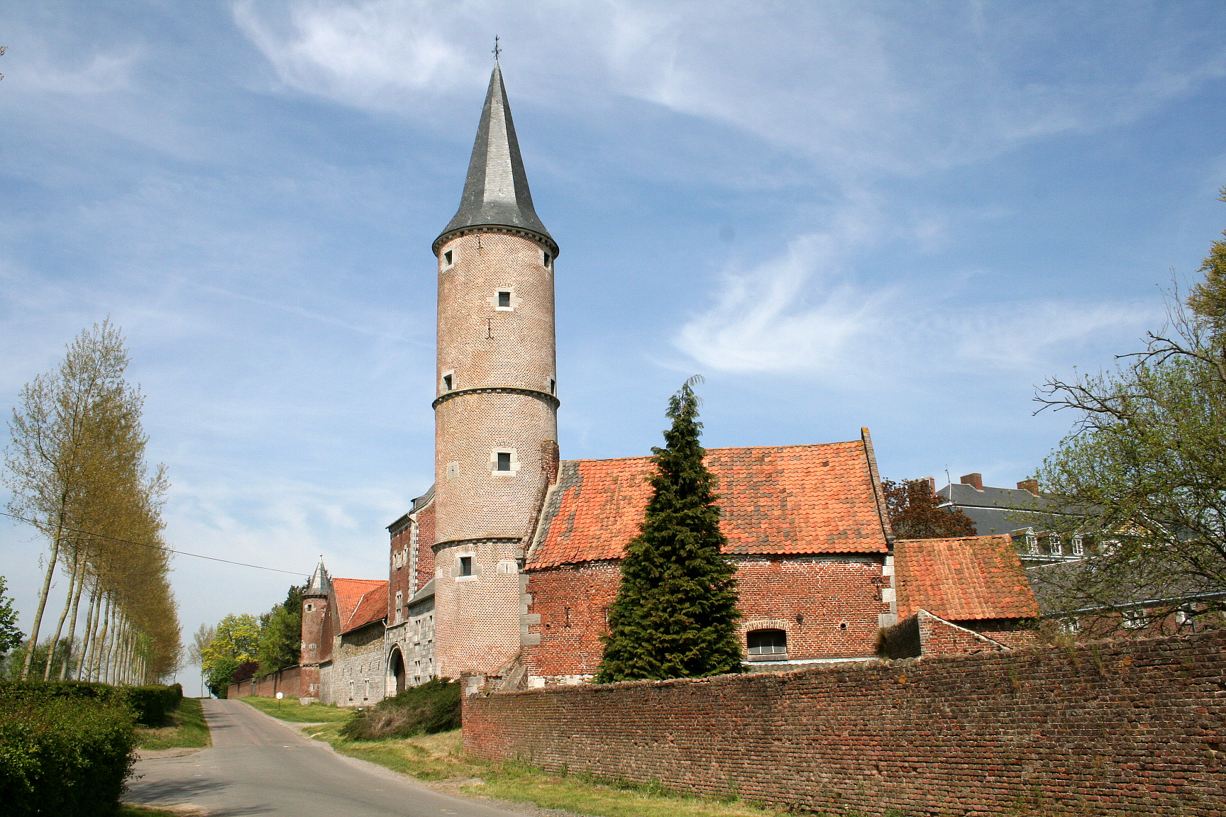 Les Waleffes (Belgium), the castel (XVIIIth century).